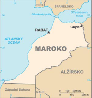 Oujda na mapě Maroka / Oujda on the map of Morocco